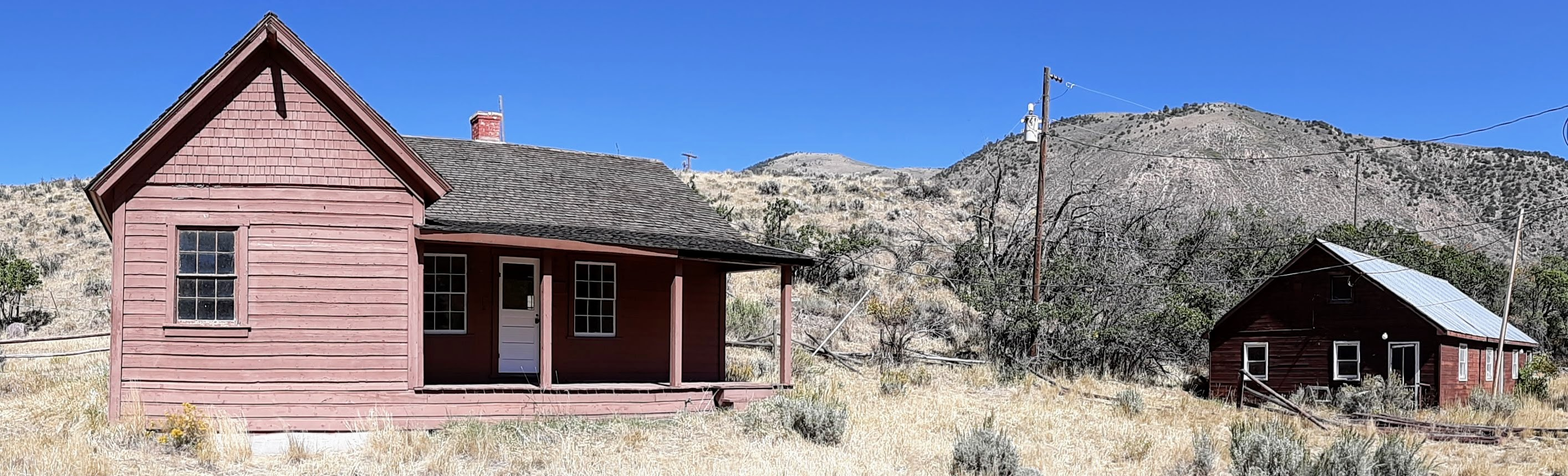 Photograph of the Stockmore Ranger Station & Bunkhouse